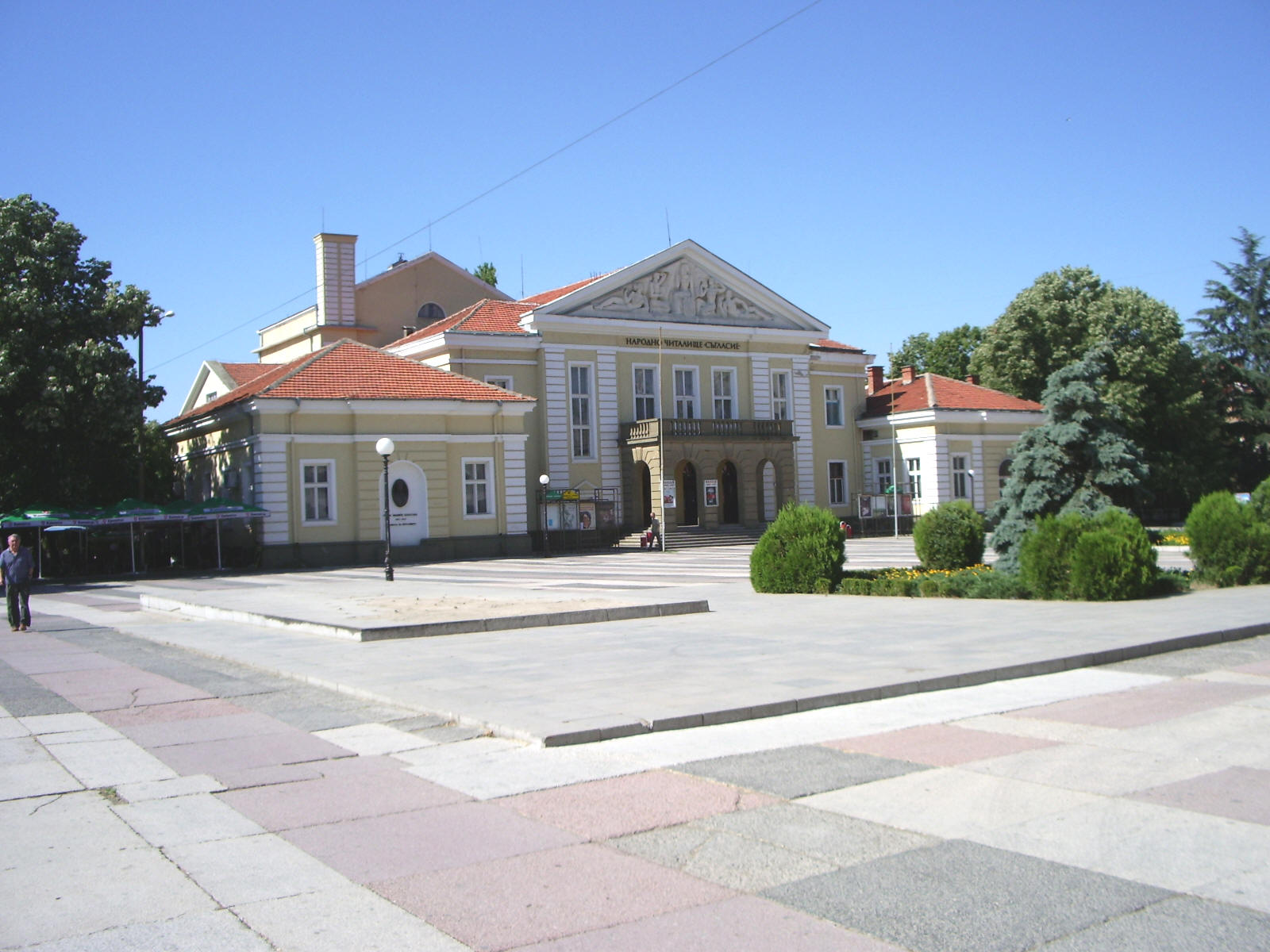 Yambol Theatre, Bulgaria